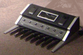 Moog Taurus (1972?, S/N 1001) This is a shot of part of Canto's collection of MOOG synths. Visited the Cantos Foundation museum of electronic instruments and keyboards in February 2009 and took a lot of photos and videos. Confession: when I first saw this, I squee-d in absolute and uncontainable glee. Trackback: MatrixSynth - thanks for the link.